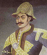 Painting of Bhimsen Thapa in National Museum of Nepal.